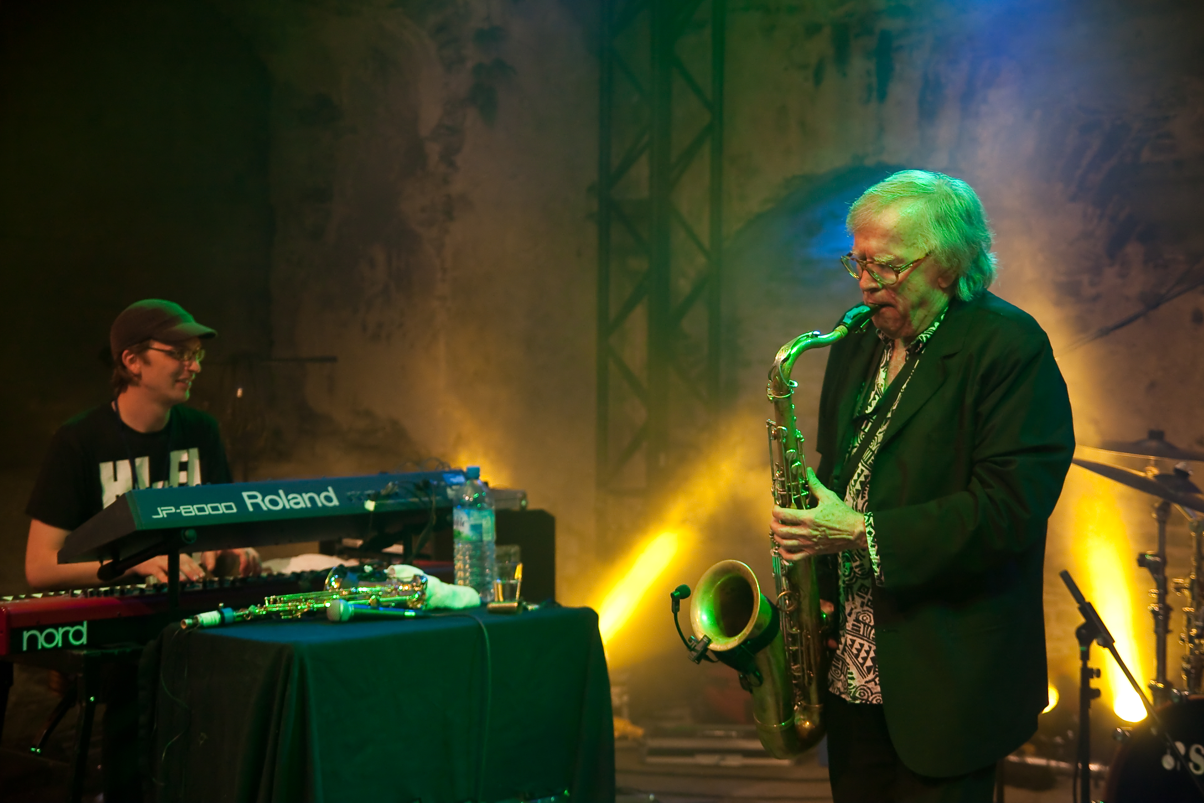 Michael Hornek and Klaus Doldinger